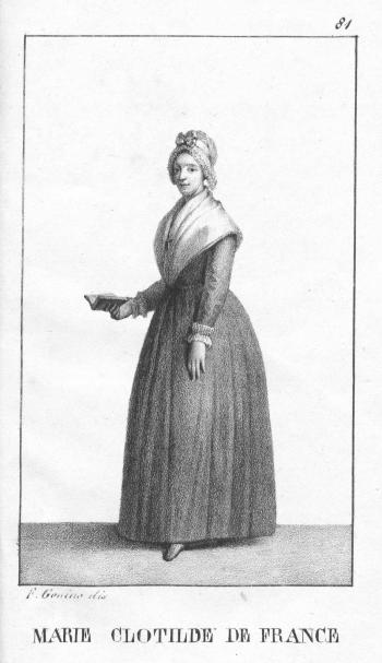 Clothilde of France